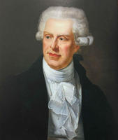 Portrait of Pasquale Paoli by Joseph Chabord (1820)